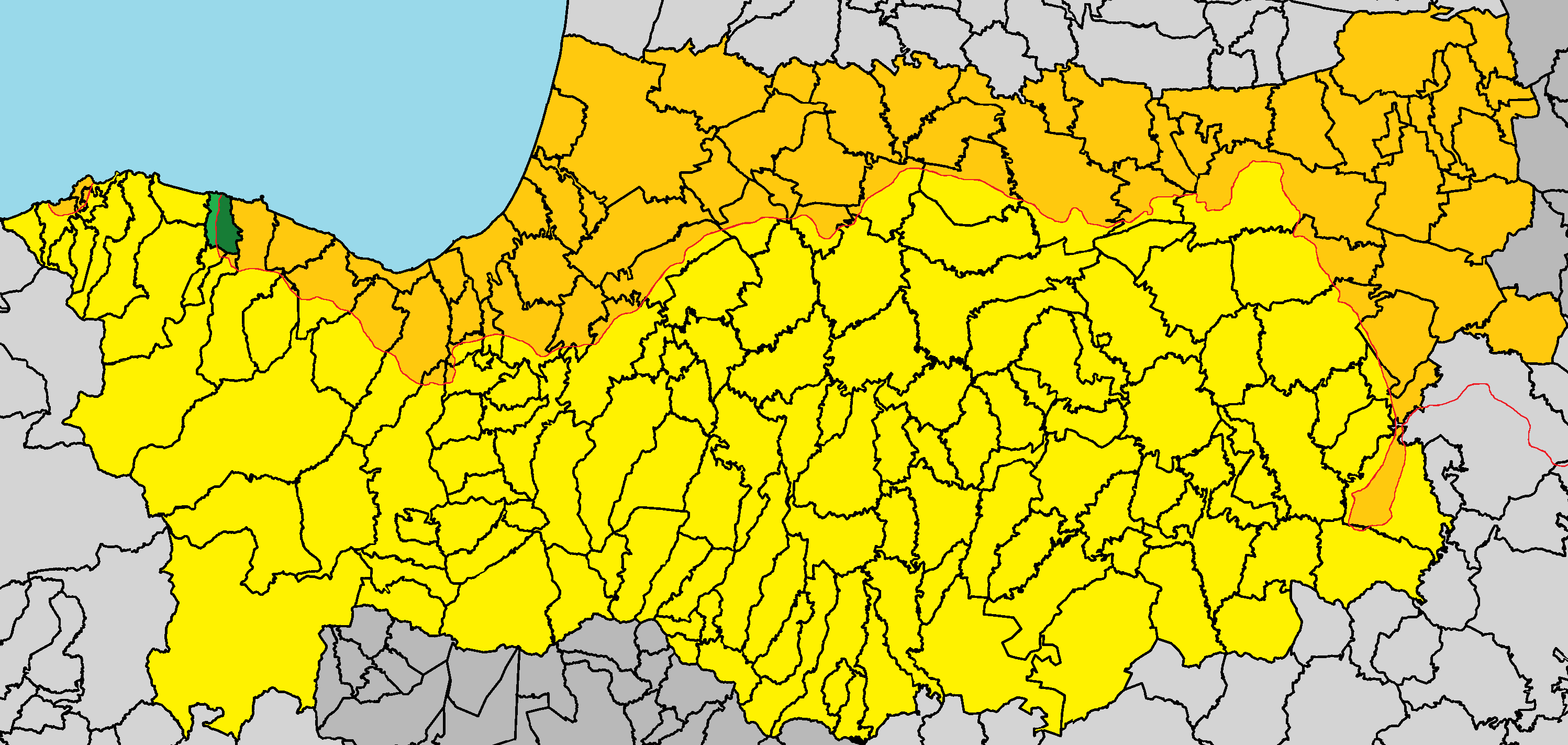 Ammadies in Nicosia District (de jure).